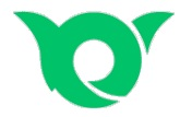 Yasuda Kochi chapter